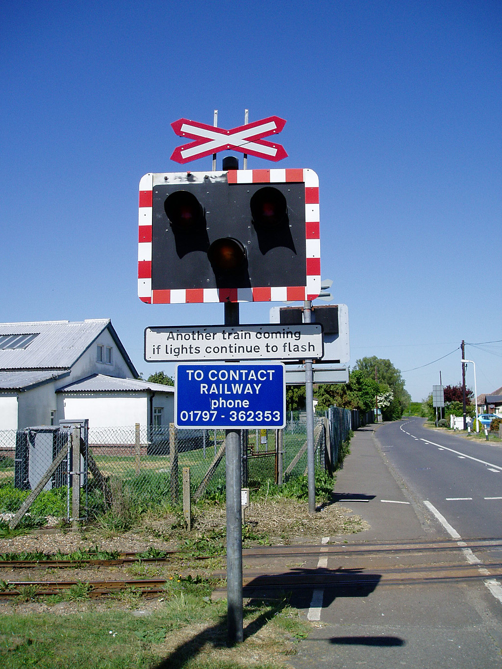 RH&DR - St Marys Bay Station crossing sign located in Jefferstone Lane, St Mary's Bay, Kent, UK.